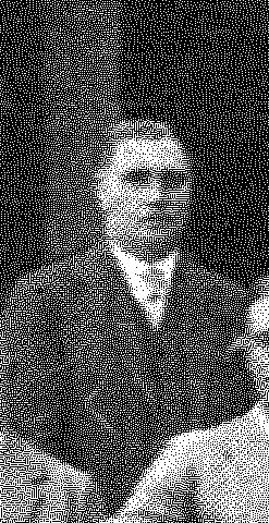 Fifteenth Meeting of the Board of Indian Agriculture 1929 at Pusa Fourth row. 1. C. A. Maclean. 2. Col. Matson. 3. W. MacRae. 4. Col. G. Mellor, 5. F. J. F. Shaw. 6. Churchill. 7. P. B. Richards. 8. A. M. Ulvi. 9. J. S. Garewal. 10. F. D. Odell. 11. R. C. Woodford. 12. C. V. Sane. 13. A. K. B. Cazi. 14. P. V. Isaac. Third row. 1. Afzal Hussain. 2. J. N. Chakravarty. 3. G. P. Hector. 4. F. J. Plymen. 5. W. Sayer. 6. J. H. Ritchie. 7. S. M. A. Shah. 8. D. P. Johnston. 9. T. F. Quirke. 10. W. Harris. 11. P. T. Saunders. 12. N. N. Bose. 13. M. S. A. Hydari. 14. J. N. Sen. 15. F. J. Warth. Second row. 1. G. S. Henderson. 2. D. R. Sethi. 3. A. P. Cuff. 4. H. P. Pandya. 5. W. Smith. 6. Z. R. Kothawala. 7. R. W. Littlewood- 8. Charan Sisoh. 9. Harchand Singh. 10. Major P. B. Riley. 11. P. J. Kerr. 12. J. H. Walton. 13. P. B. Vagholkar. 14. Rao Bahadur B. Viswanath 15. C. Mayadas. First row (Sitting on Chairs.) 1. W. Burns. 2. A. McKerral. 3. W. Roberts. 4. B. C. Burt. 5. P. H. Carpenter. 6. Sir Frank Noyce. 7. Dewan Bahadur Sir T. "Vijayaraghavacharya. 8. W. H. Harrison. 9. D. Milne. 10. G. R. Hilson. 11. K. Hewlett. 12. G. K. Devadhar. 13. F. Ware.